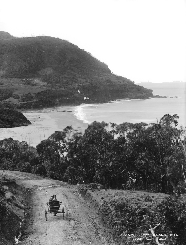 'Beaches' Pictures from The Powerhouse Museum This files was posted to Flickr by The Powerhouse Museum (See their website for further information). Many thanks to the Powerhouse Museum for helping release this wonderful material. This tag does not indicate the copyright status of the attached work. A normal copyright tag is still required. See Commons:Licensing for more information. This image is of Australian origin and is now in the public domain because its term of copyright has expired. According to the Australian Copyright Council (ACC), ACC Information Sheet G023v17 (Duration of copyright) (August 2014). Type of materialCopyright has expired if ... A Photographs or other works published anonymously, under a pseudonym or the creator is unknown:taken or published prior to 1 January 1955 B Photographs (except A):taken prior to 1 January 1955 C Artistic works (except A & B):the creator died before 1 January 1955 D Published editions1 (except A & B):first published more than 25 years ago E Commonwealth or State government owned2 photographs and engravings:taken or published more than 50 years ago and prior to 1 May 1969 1 means the typographical arrangement and layout of a published work. eg. newsprint. 2owned means where a government is the copyright owner as well as would have owned copyright but reached some other agreement with the creator. When using this template, please provide information of where the image was first published and who created it. You must also include a United States public domain tag to indicate why this work is in the public domain in the United States.